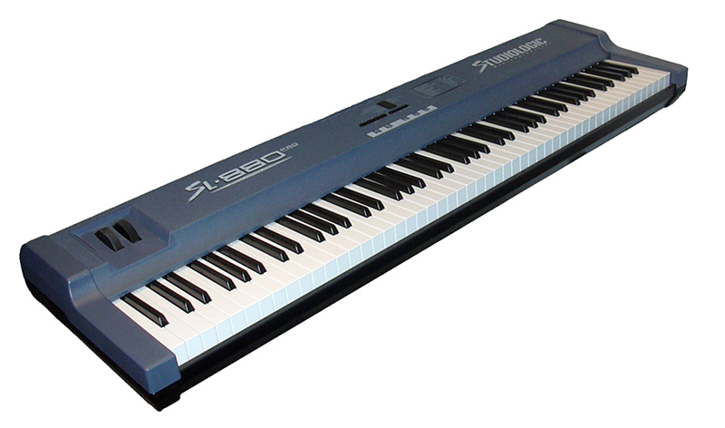 a master keyboard (Fatar Studiologic SL-880Pro)